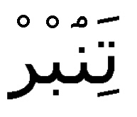 it is a postal stamp of Soledad Anaya Solórzano